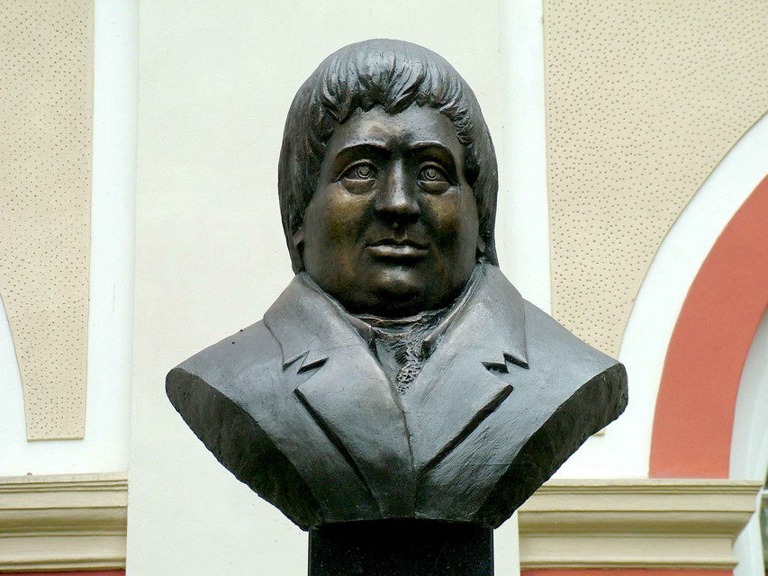 Monument of Jozef Maksymilian Ossolinski on yard of Ossolineum, Wroclaw, Poland